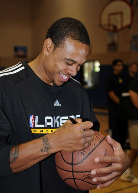 SAN DIEGO (Oct. 23, 2009) - NBA star Shannon Brown of the Los Angeles Lakers autographs a basketball for service members in the Naval Medical Center San Diego gym. During a surprise visit, players and coaches signed autographs and posed for pictures with patients and staff. The Lakers are in San Diego for a preseason exhibition game against the Denver Nuggets. (